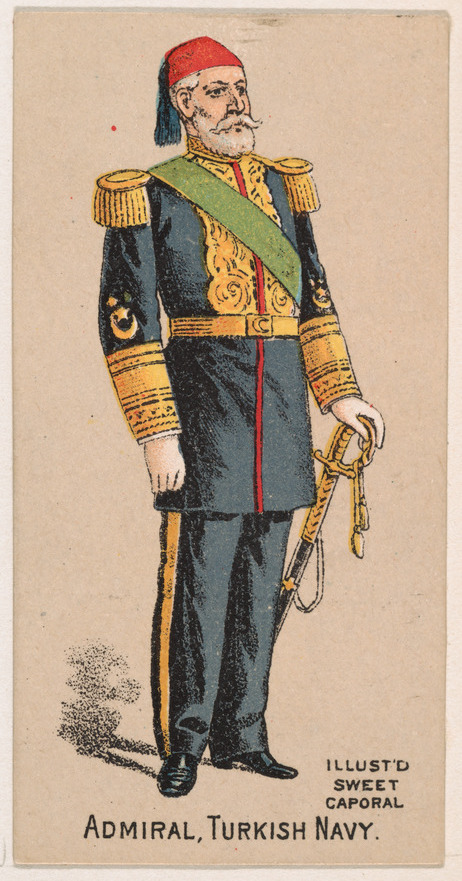 Print; Prints